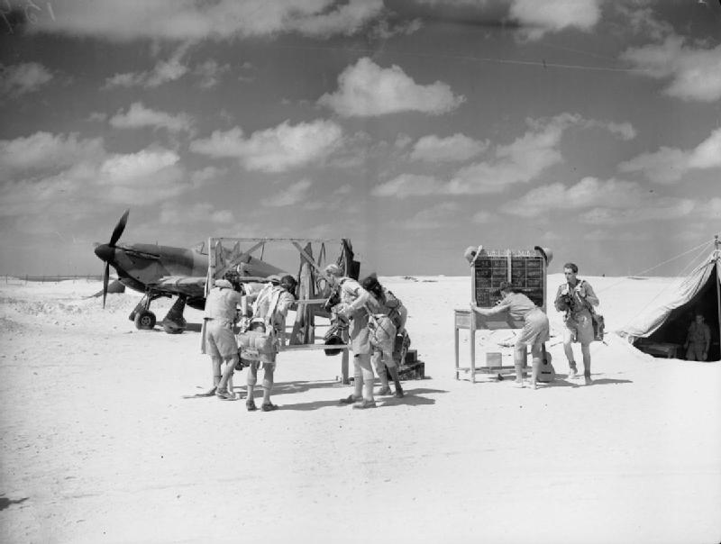 IWM caption : Pilots of No. 274 Squadron don their parachutes and flying clothing from a makeshift rack during a practice scramble at their dispersal at Amriya, Egypt. On the extreme right is Flying Officer Arthur A P Weller and, bareheaded at third left, is the section leader, Flight Lieutenant Peter Wykeham-Barnes. Other pilots include Pilot Officer Philip H Preston and Flight Sergeant J C Hulbert. On the right, and airman chalks up the situation on the operations board.